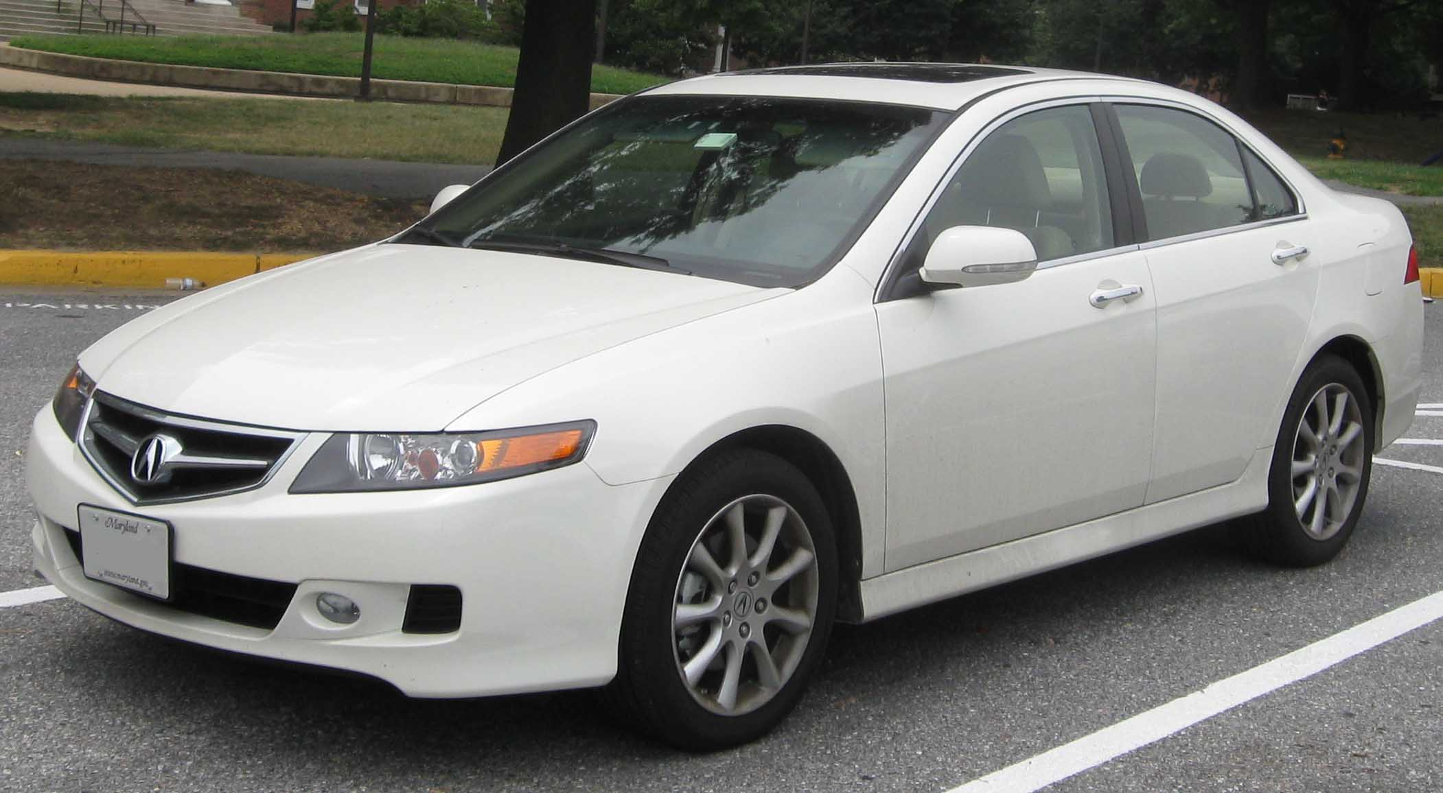 2006-2008 Acura TSX photographed in College Park, Maryland, USA.